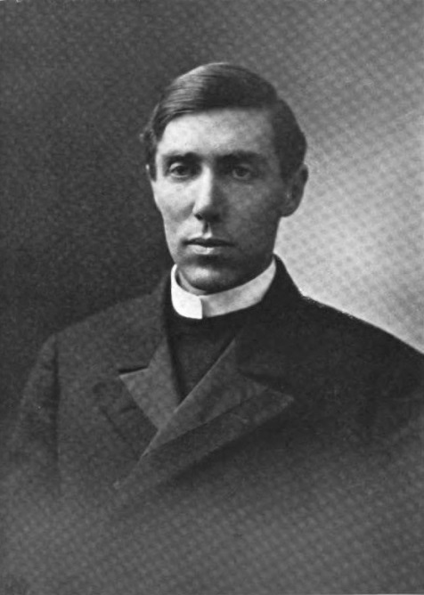 The Rt. Rev. Henry St. George Tucker, Episcopal Bishop of Kyoto, Japan. Consecrated March 25, 1912.